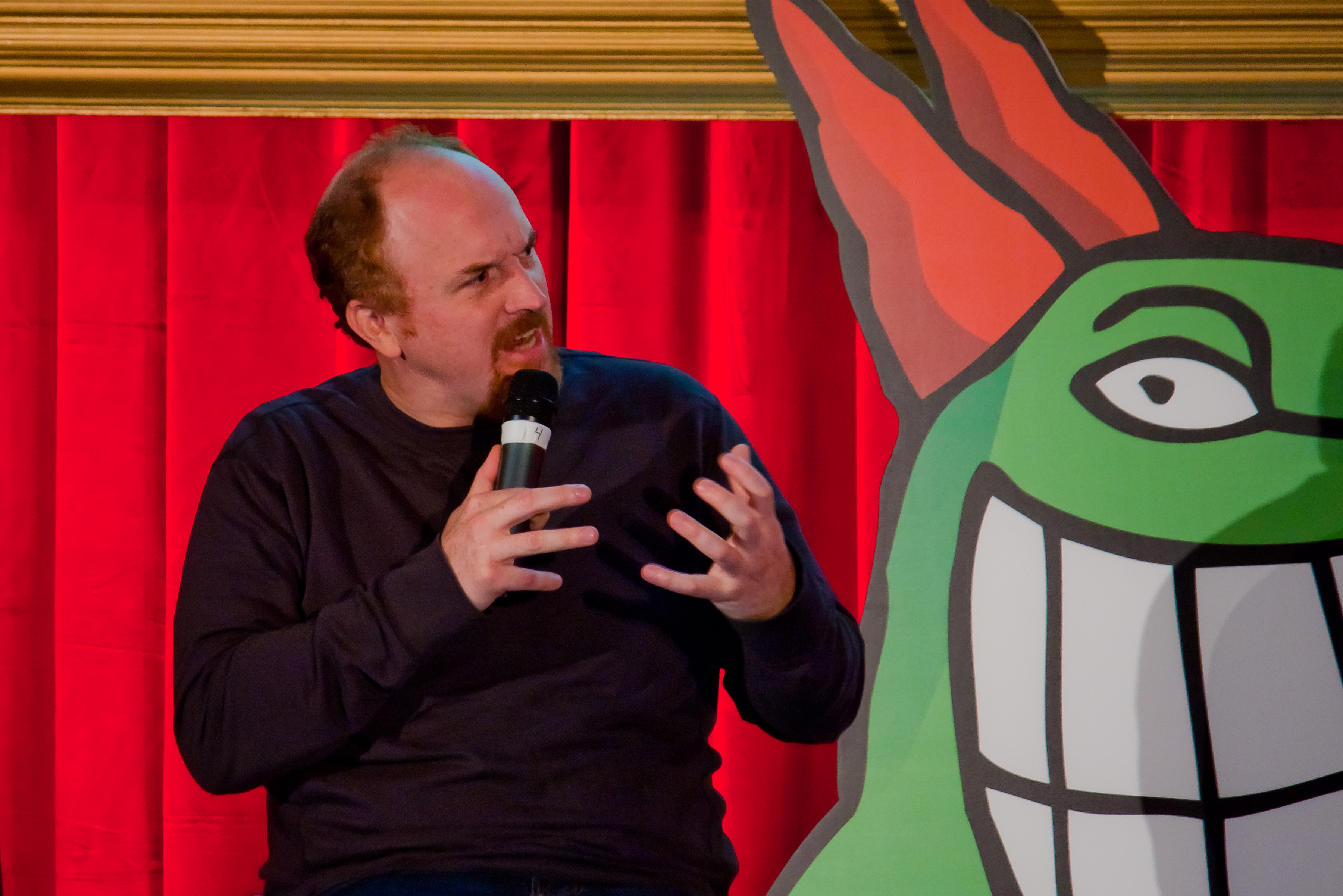 Louis CK speaking at Just For Laughs in Montreal, July 29, 2011.